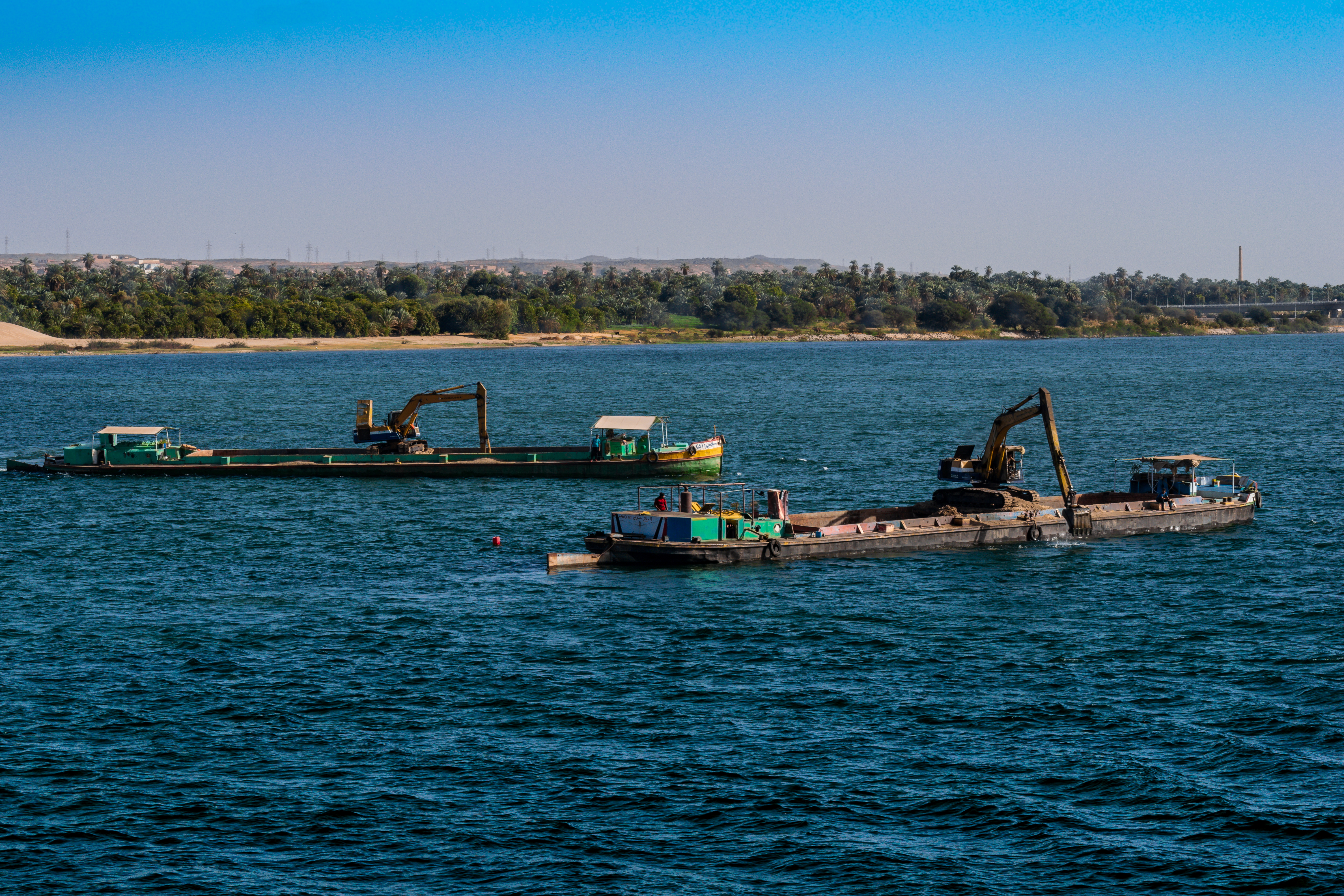 Dredge ships on the Nil